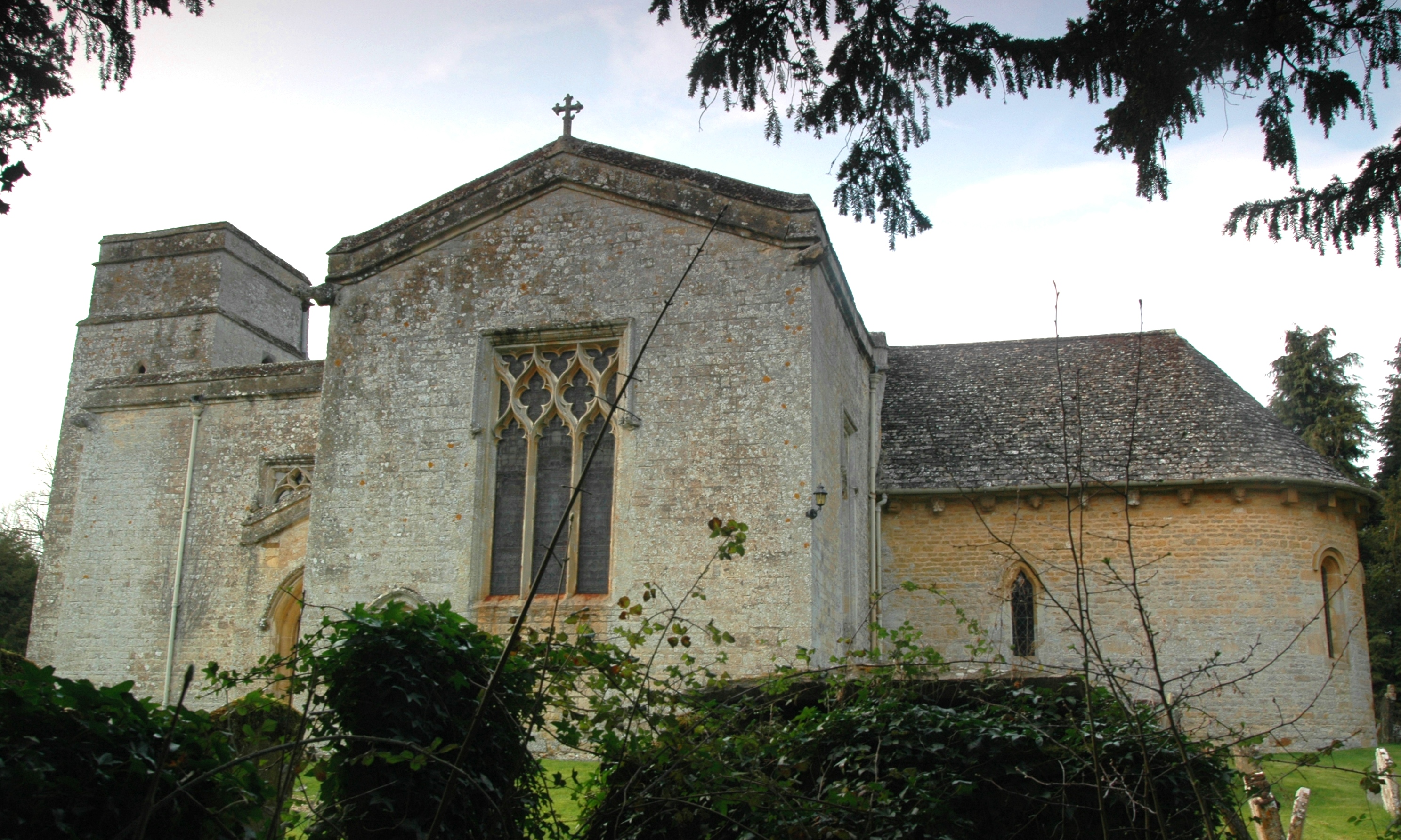 Church of England parish church of St Nicholas, Kiddington, Oxfordshire, viewed from the south.